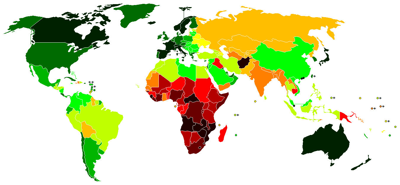 Life Expectancy at birth (years) over 80 77.5-80 75-77.5 72.5-75 70-72.5 67.5-70 65-67.5 60-65 55-60 50-55 45-50 under 45 not available Life expectancy at birth (years) world map including: 1) All 192 UN member states. 2) Occupied Palestinian Territories. 3) Western Sahara Territory. 4) Republic of China-Taiwan. 5) Hong-Kong and Macau Special Administrative Regions of the People's Republic of China.